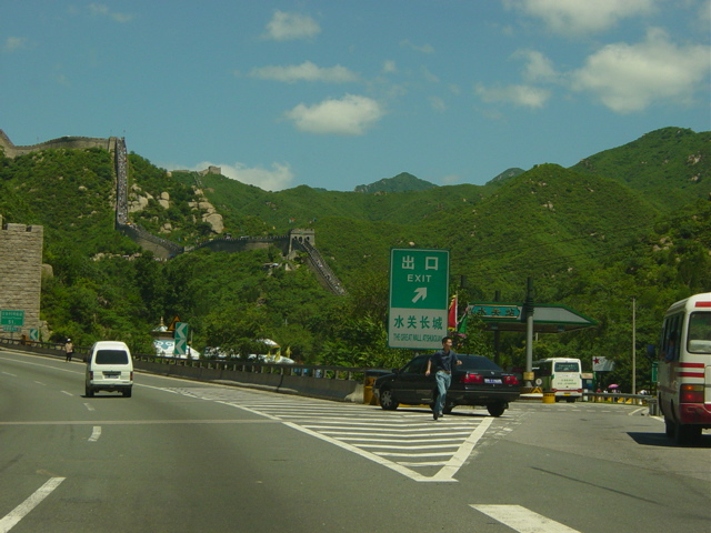 Very close to the expressway: The Great Wall at Shuiguan (July 2004 photo)